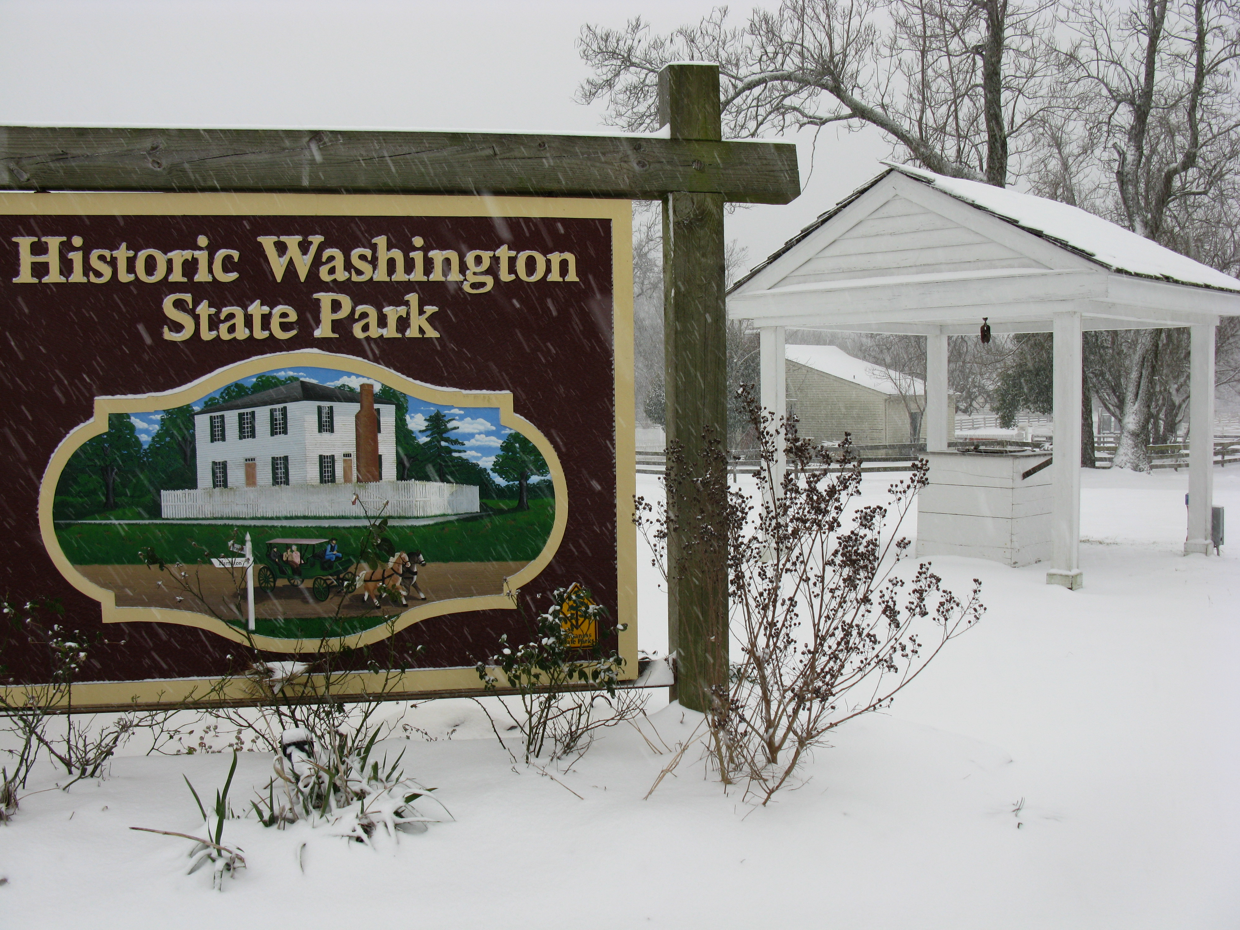 Snowstorm and Historic Washington sign.